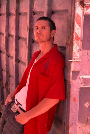 Photo of George Perez